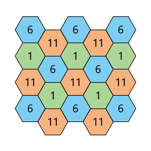 Wi-Fi Channels 1, 6, 11